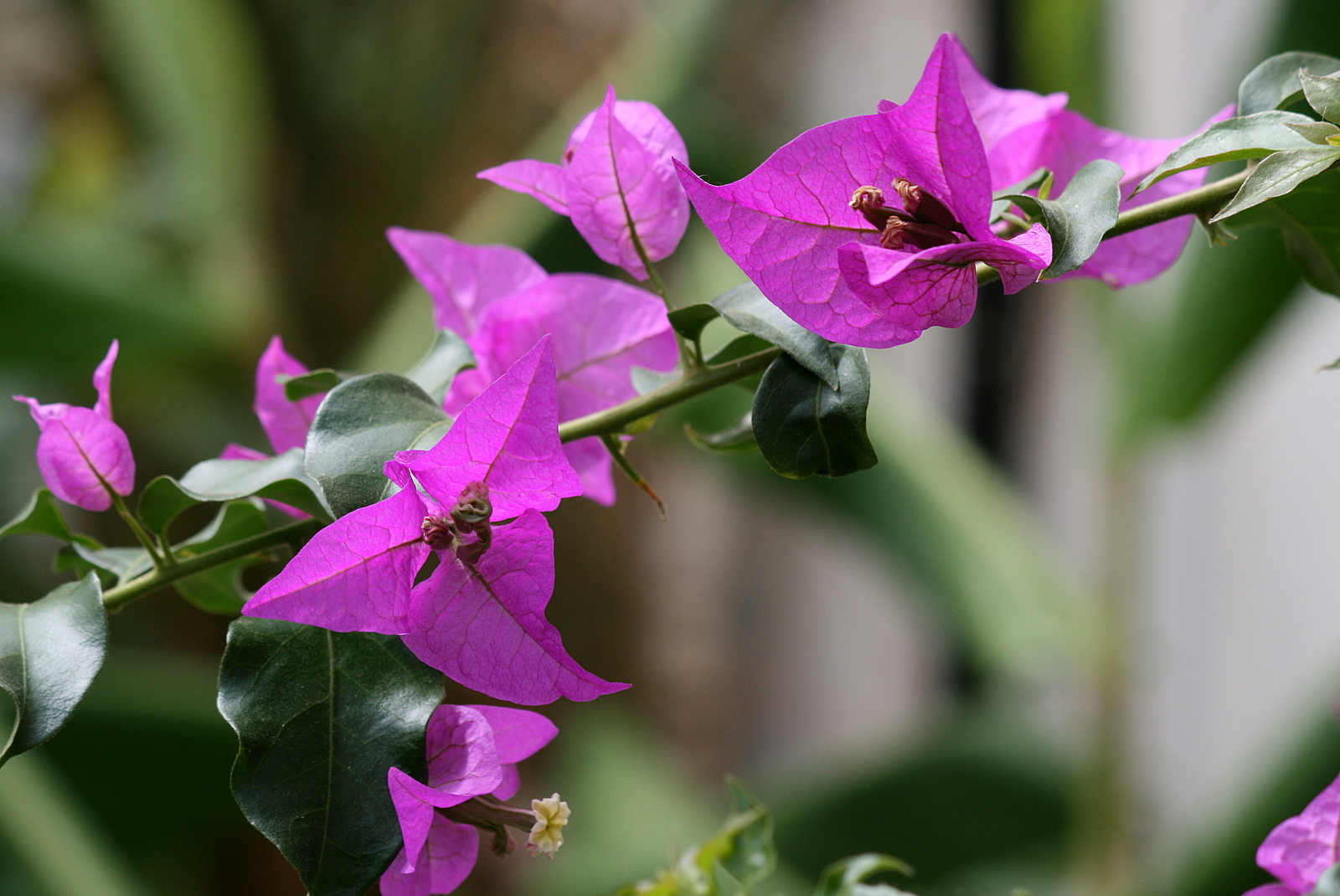 Bougainvillea spectabilis